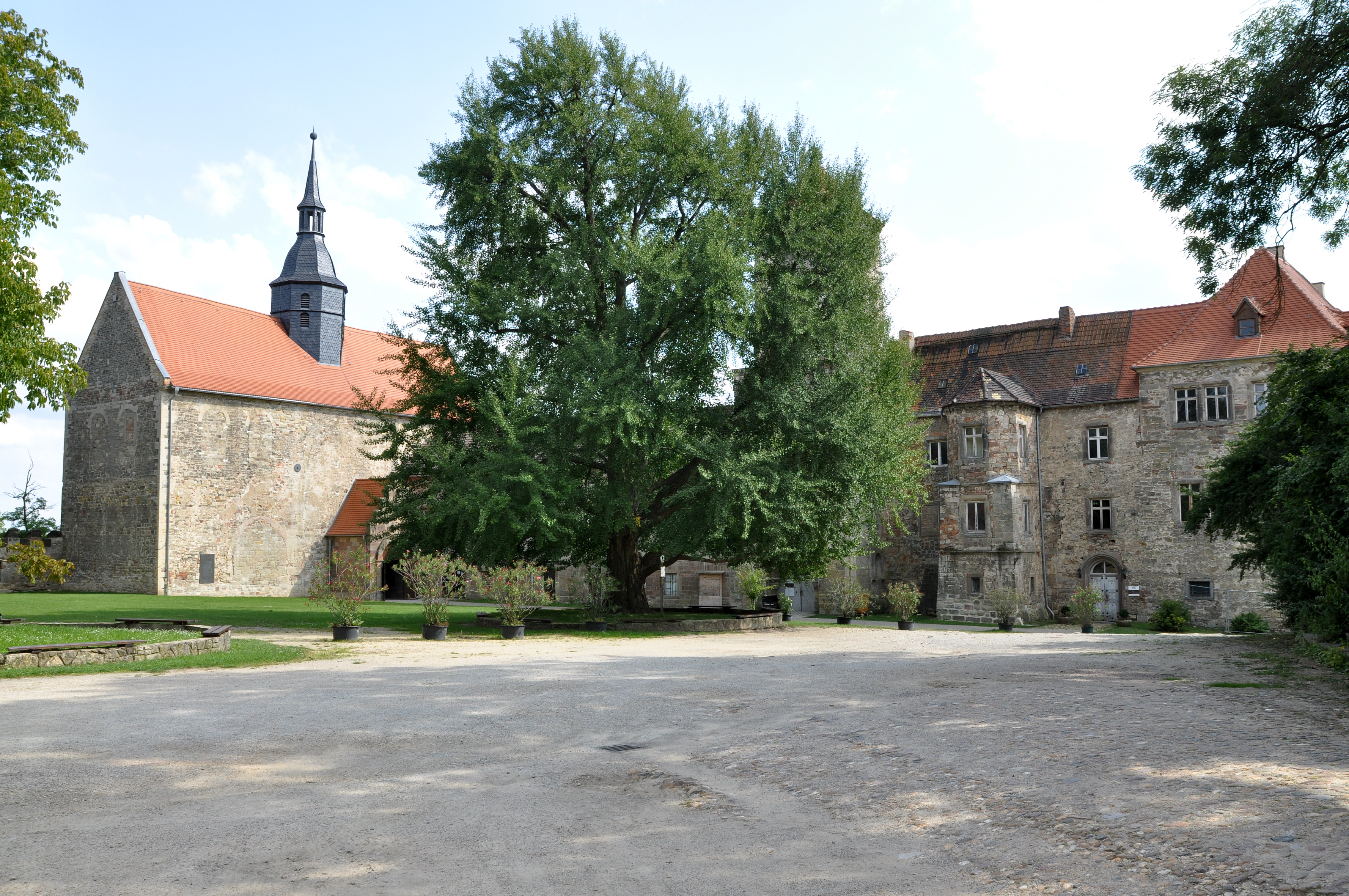 Courtyard with the church on the left and the famous ginkgo biloba that was planted by the Counts of Zech in 1840